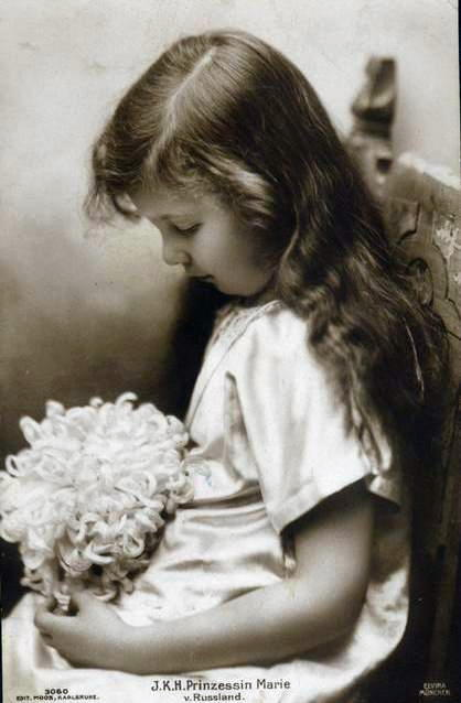 This photograph of Grand Duchess Maria Kirillovna of Russia appears to have been published on a German postcard prior to World War I. Maria was born in 1907. Because of its age, I think the photo is most likely in the public domain. I uploaded the photo from The e-mail for the Web site owner, Jesus Ibarra, appears not to work. If this photo is not public domain, please delete it.